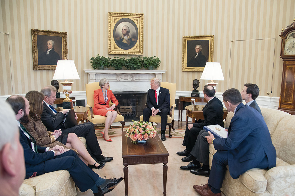 President Donald Trump talks with British Prime Minister Theresa May during a bilateral meeting in the Oval Office, Friday, January 27, 2017. Prime Minister May was the first Head of State to officially visit the White House. (Official White House Photo by Shealah Craighead)